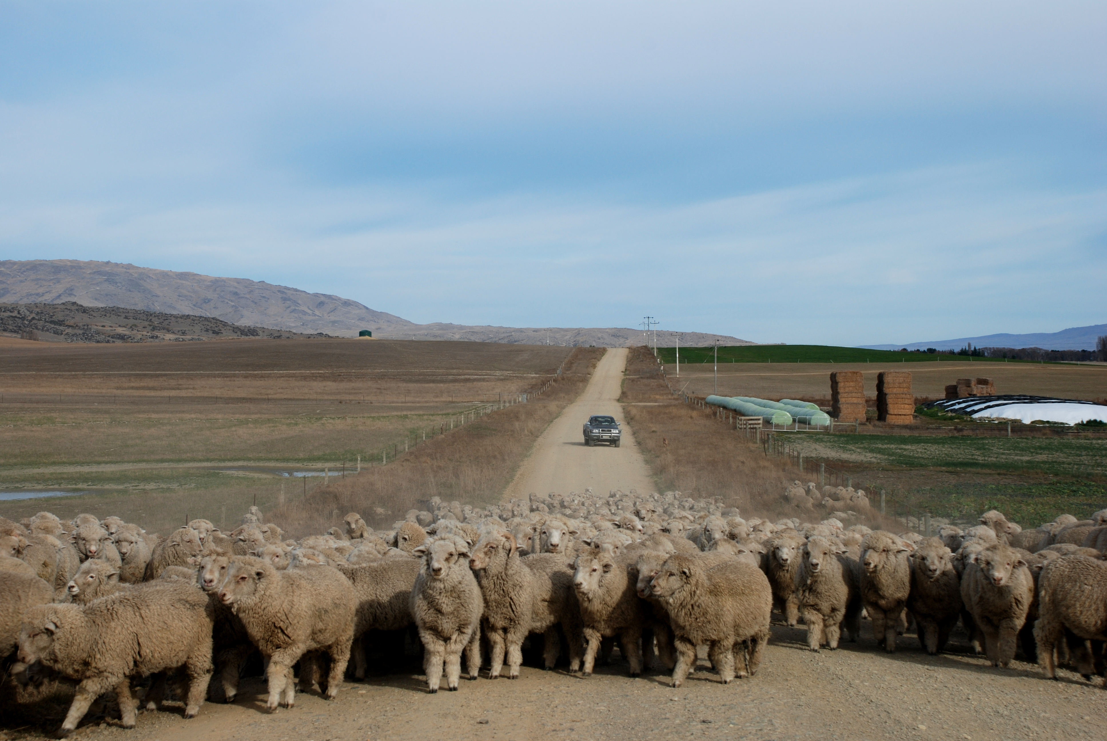 Sheep traffic jam.